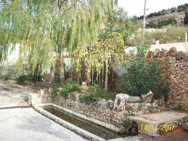 The Ain AlBardeh Cold Spring . Taken by my own camera